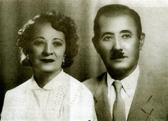 Ihsan Nuri Pasha with his wife Yashar in Tehran